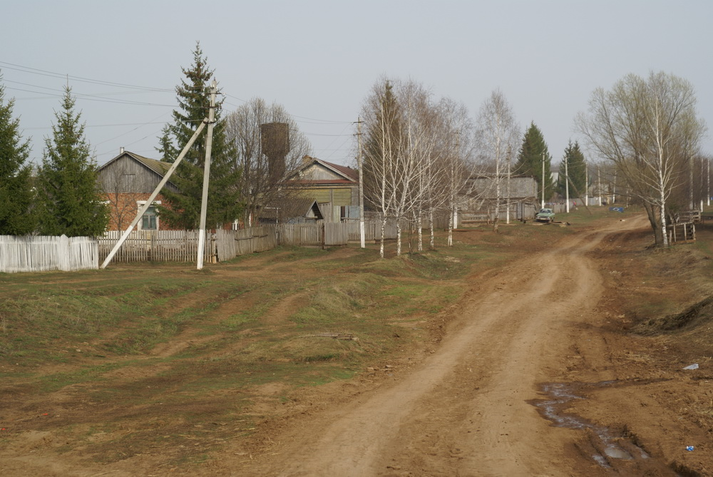 Photo of Central Street, Timerlek, Nurlatskii District, Russia